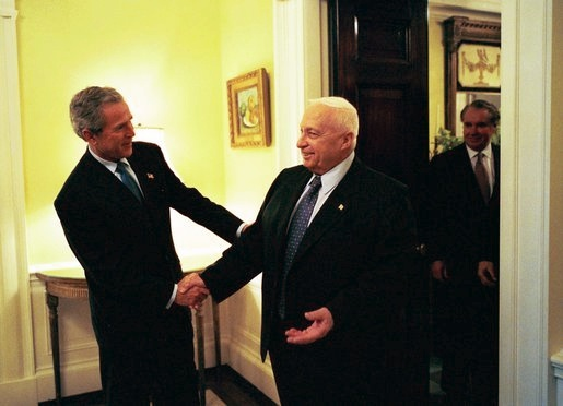 President George W. Bush welcomes Prime Minister Ariel Sharon of Israel to the White House Wednesday, April 14, 2004. The two leaders met in the residence before holding a joint press conference. Pictured behind the Prime Minister is U.S. Department of State Chief of Protocol Donald Ensenat. White House photo. Public Domain.